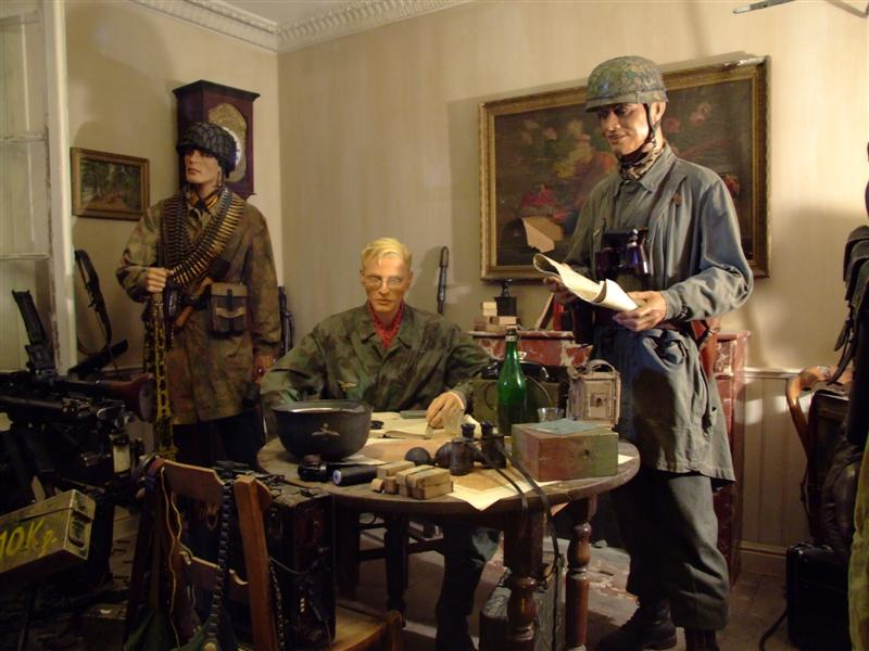 inside "Dead Man’s Corner" Museum